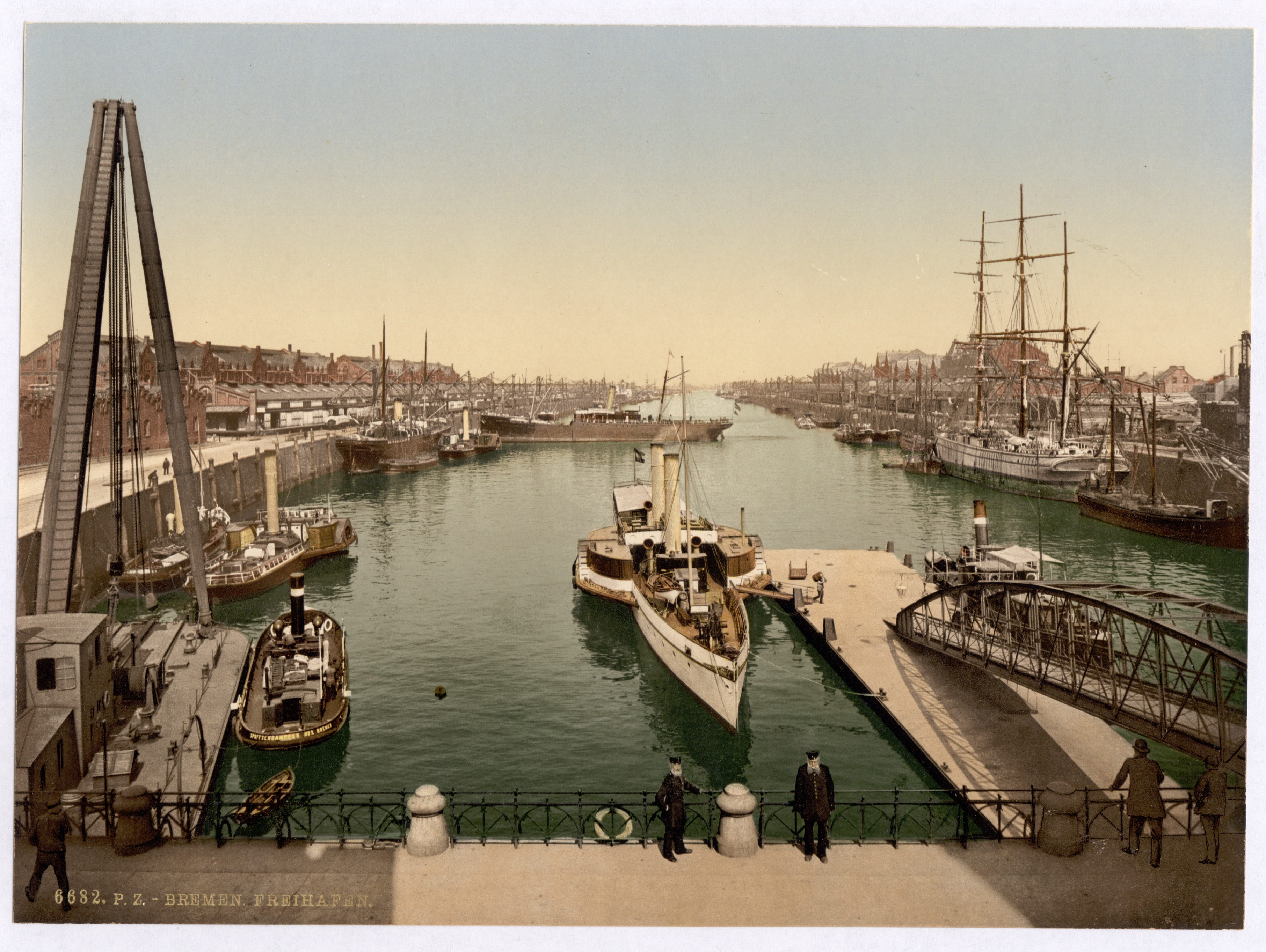 Print no. "6682".; Title from the Detroit Publishing Co., catalogue J-foreign section. Detroit, Mich. : Detroit Photographic Company, 1905..; Forms part of: Views of Germany in the Photochrom print collection.